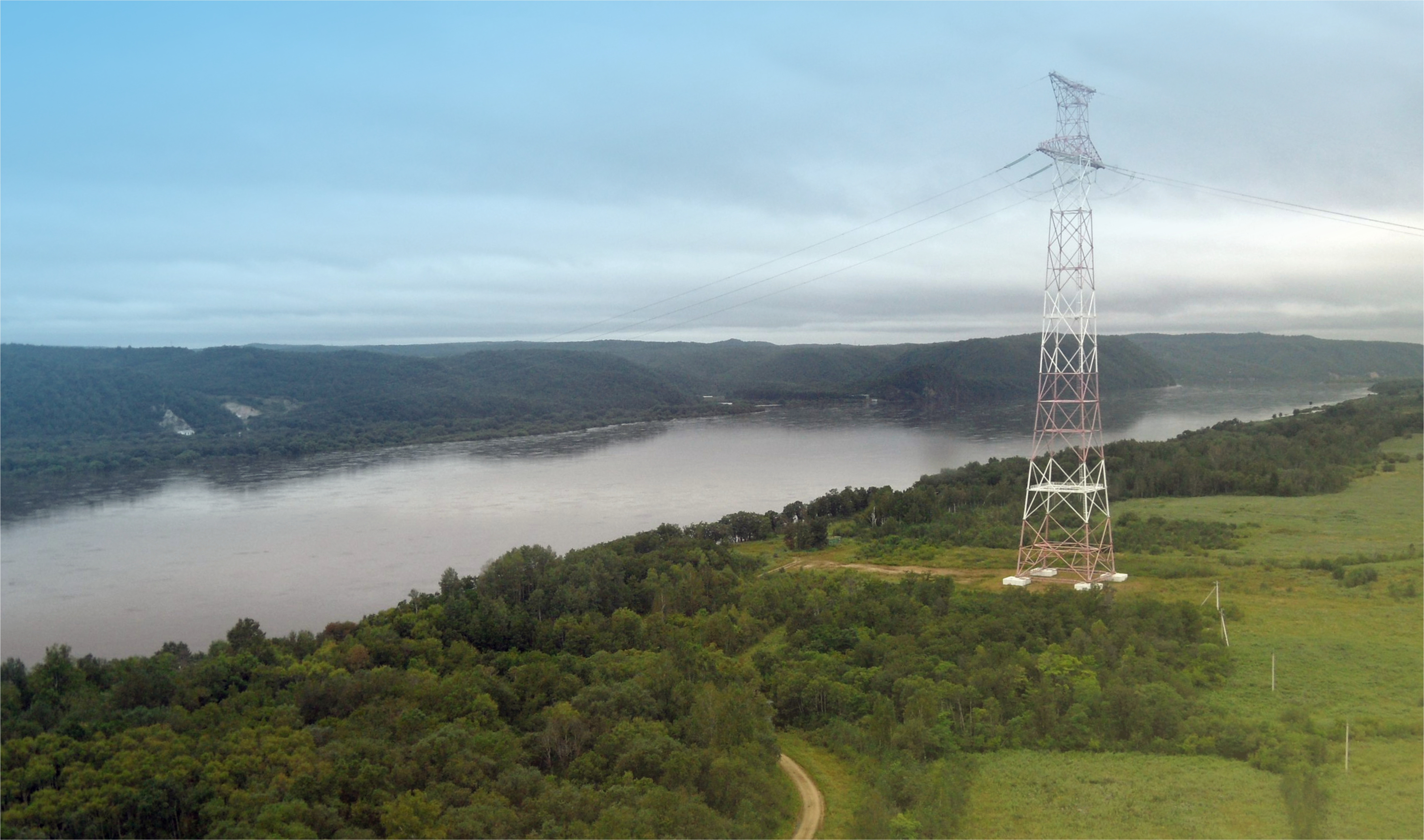 PTL-500, 500 kV overhead power line crossing of the Amur River, Russia